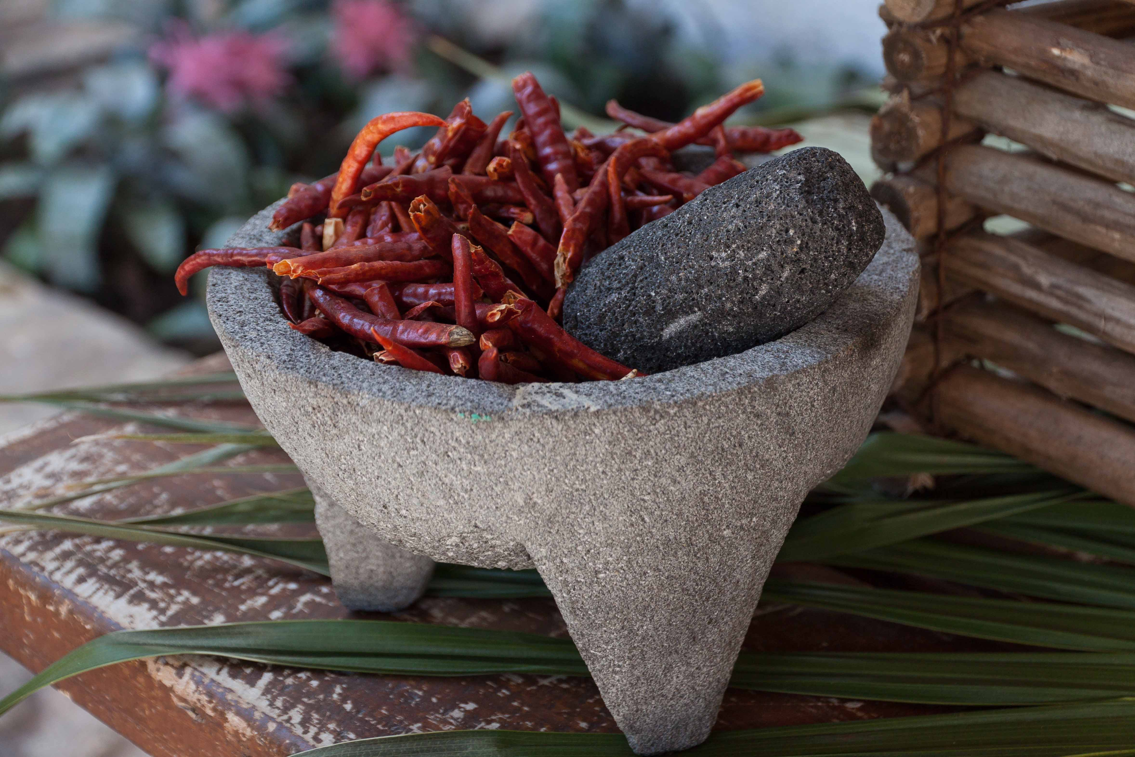 Molcajete y tejolote, popo (mortar and pestle) Traditional way of grinding in Mexico - Xcaret